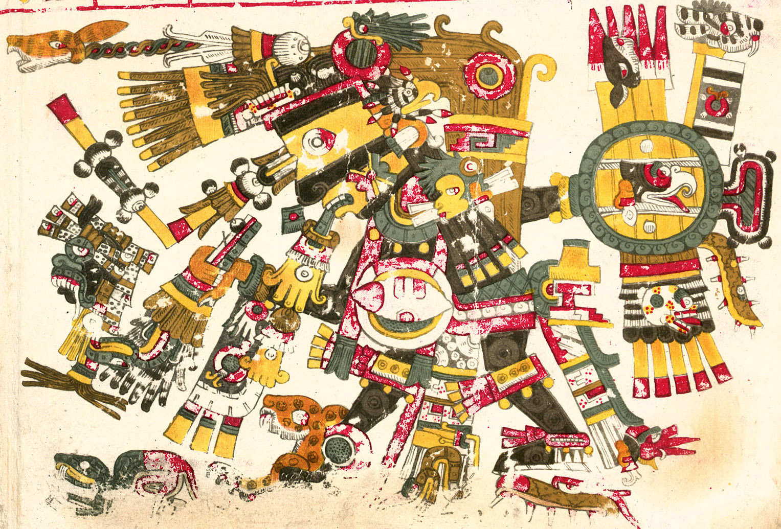 A drawing of Tezcatlipoca, one of the deities described in the Codex Borgia